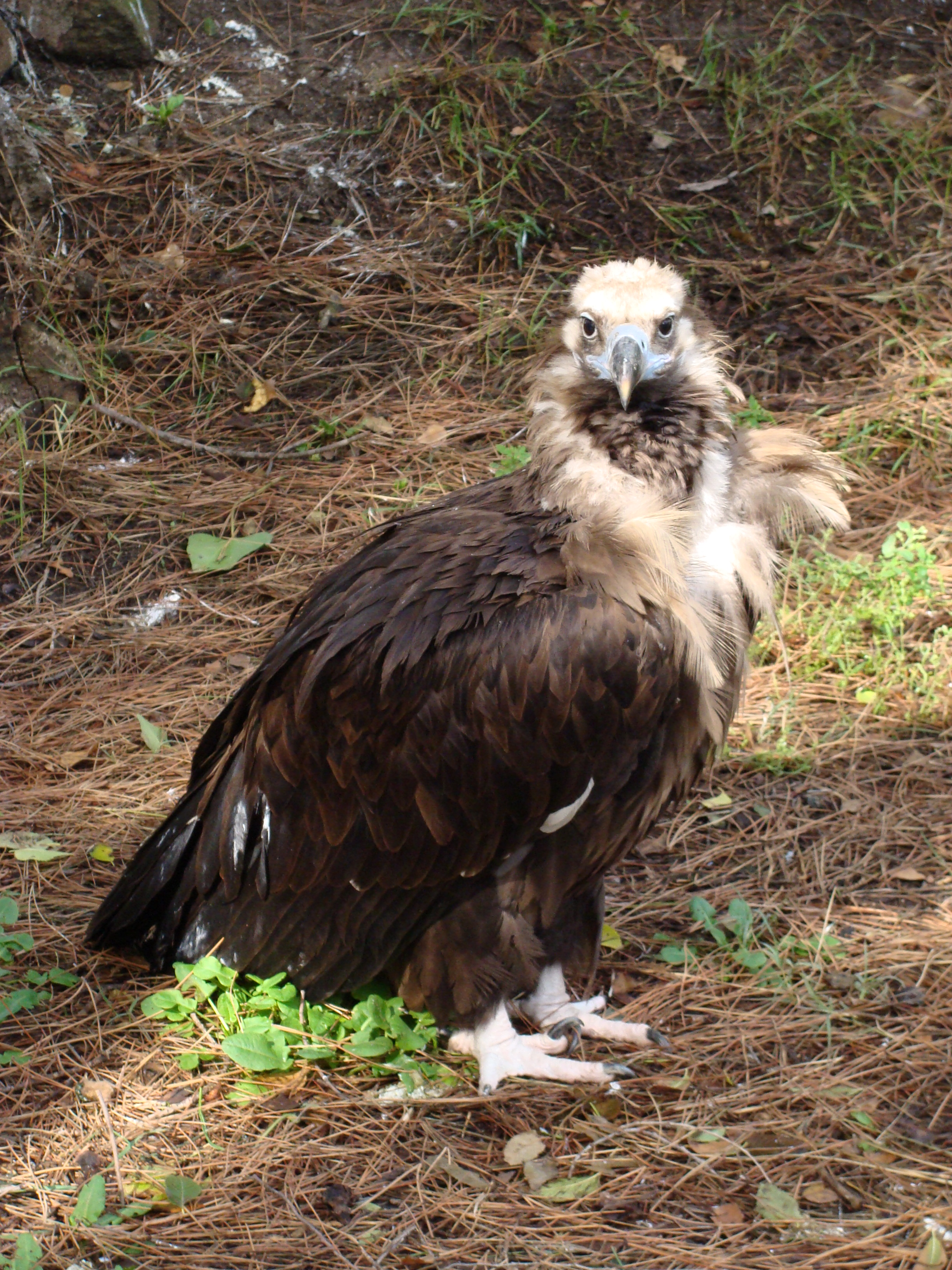 Aegypius monachus in the Zoo de Madrid, Spain.